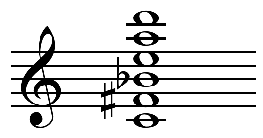 Alexander Scriabin's mystic chord.